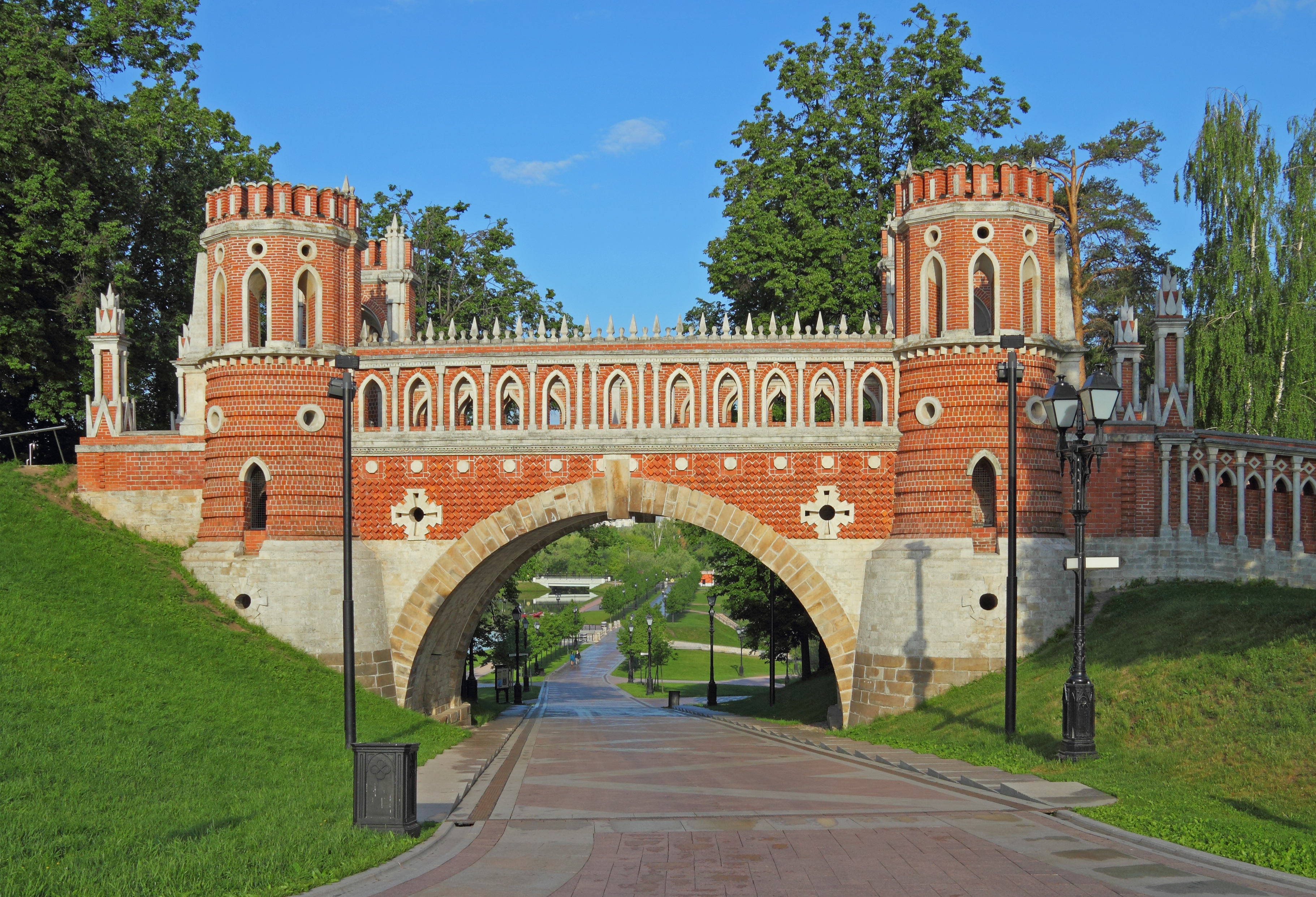 Moscow, Russia. Tsaritsyno Museum Reserve. Figure Bridge.